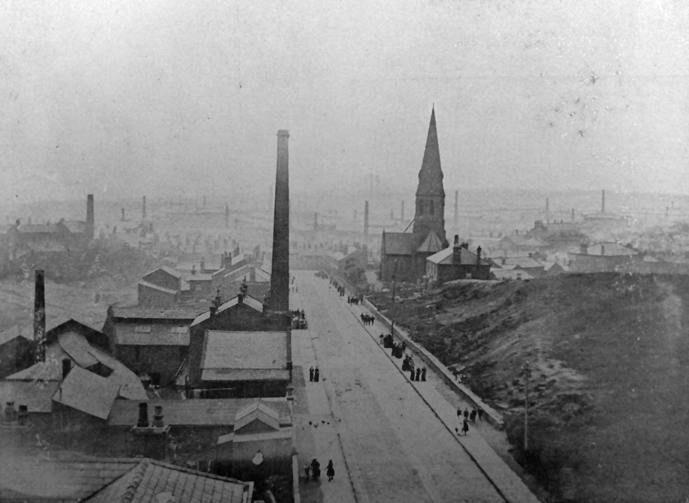 Radcliffe, pictured from Stand Lane and looking north into the town, around 1902.